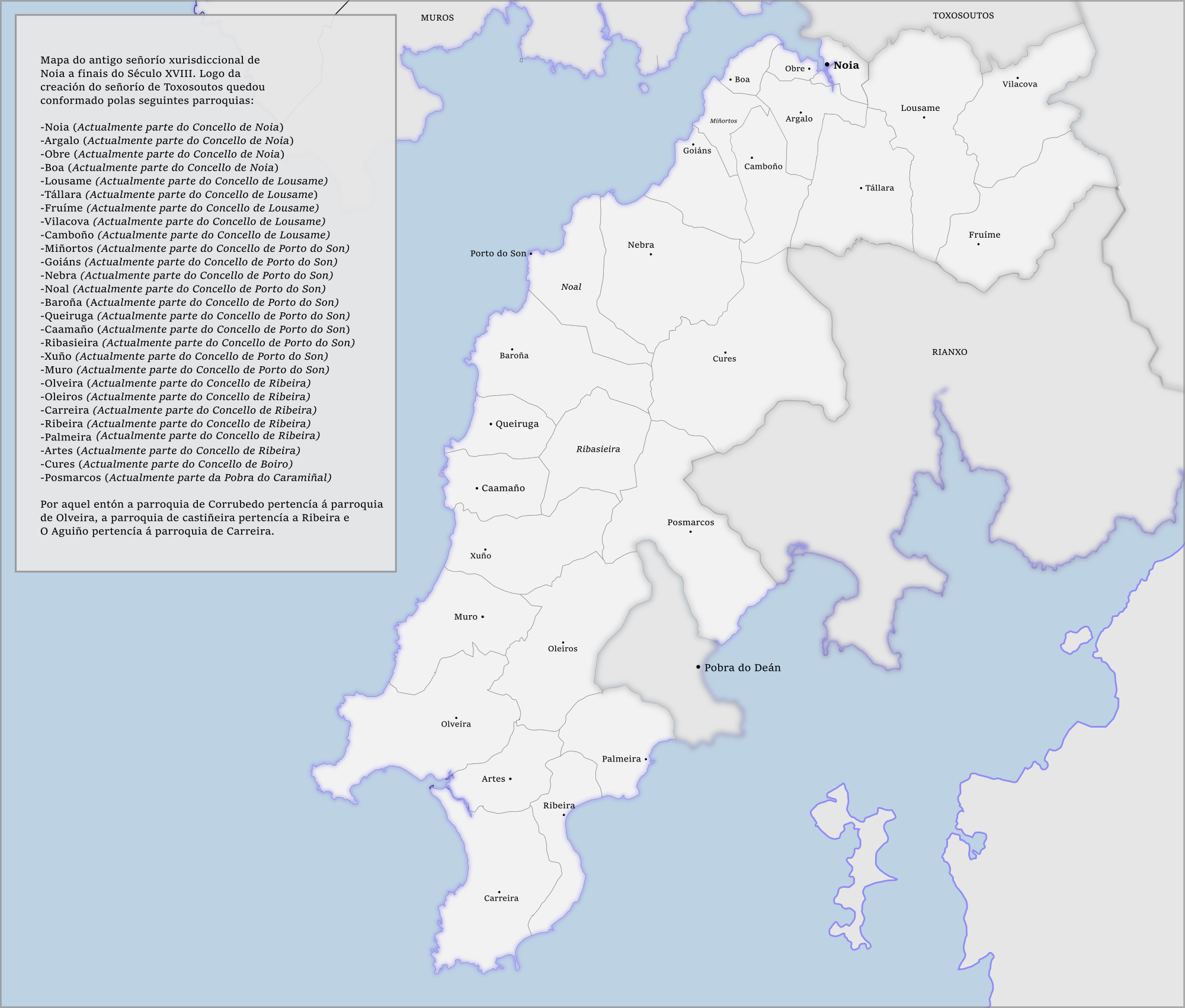 Mapa del antiguo señorío jurisdiccional de Noya. Tras la creación del señorío de San Xusto quedó conformado por las siguientes parroquias: -Noia (Actualmente parte del municipio de Noya) -Argalo (Actualmente parte del municipio de Noya) -Obre (Actualmente parte del municipio de Noya) -Boa (Actualmente parte del municipio de Noya) -Lousame (Actualmente parte del municipio de Lousame) -Tállara (Actualmente parte del municipio de Lousame) -Fruíme (Actualmente parte del municipio de Lousame) -Vilacova (Actualmente parte del municipio de Lousame) -Camboño (Actualmente parte del municipio de Lousame) -Miñortos (Actualmente parte del municipio de Porto do Son) -Goiáns (Actualmente parte del municipio de Porto do Son) -Nebra (Actualmente parte del municipio de Porto do Son) -Noal (Actualmente parte del municipio de Porto do Son) -Baroña (Actualmente parte del municipio de Porto do Son) -Queiruga (Actualmente parte del municipio de Porto do Son) -Caamaño (Actualmente parte del municipio de Porto do Son) -Ribasieira (Actualmente parte del municipio de Porto do Son) -Xuño (Actualmente parte del municipio de Porto do Son) -Muro (Actualmente parte del municipio de Porto do Son) -Olveira (Actualmente parte del municipio de Ribeira) -Oleiros (Actualmente parte del municipio de Ribeira) -Carreira (Actualmente parte del municipio de Ribeira) -Ribeira (Actualmente parte del municipio de Ribeira) -Palmeira (Actualmente parte del municipio de Ribeira) -Artes (Actualmente parte del municipio de Ribeira) -Cures ((Actualmente parte del municipio de Boiro) -Posmarcos (Actualmente parte del municipio de Puebla del Caramiñal) Por aquel entonces la parroquia de Corrubedo pertencía a la parroquia de Olveira, la parroquia de Castiñeira pertencía a Ribeira y O Aguiño pertencía la parroquia de Carreira.